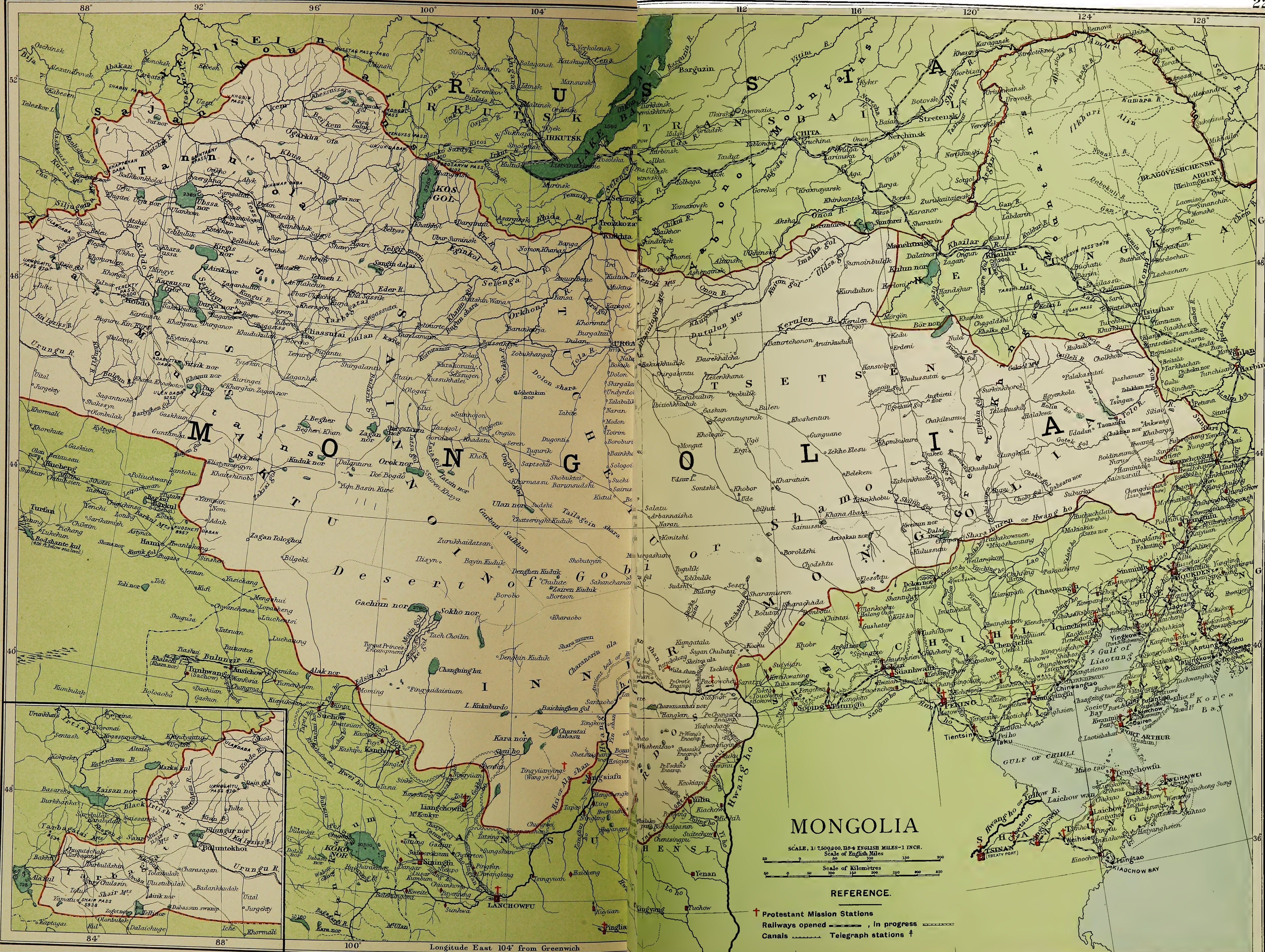 Complete atlas of China : containing separate maps of the eighteen provinces of China proper ... and of the four great dependencies ... , p.67-68